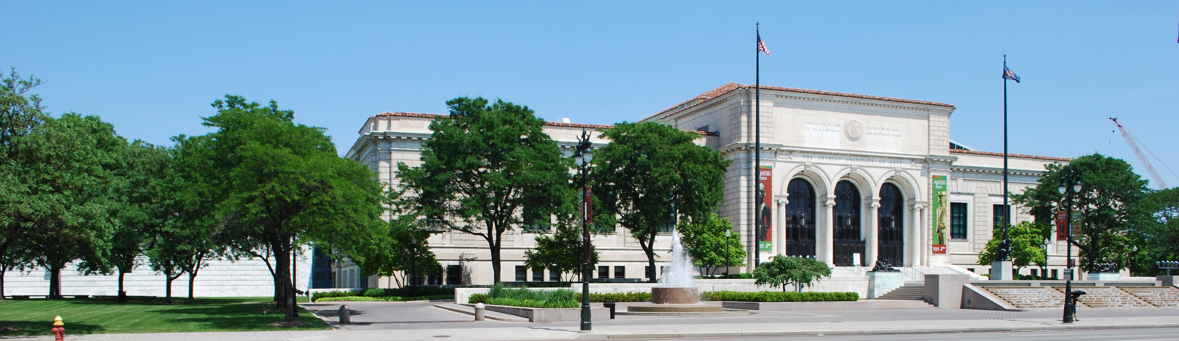 Detroit Institute of the Arts. Contributing property to the Cultural Center Historic District.